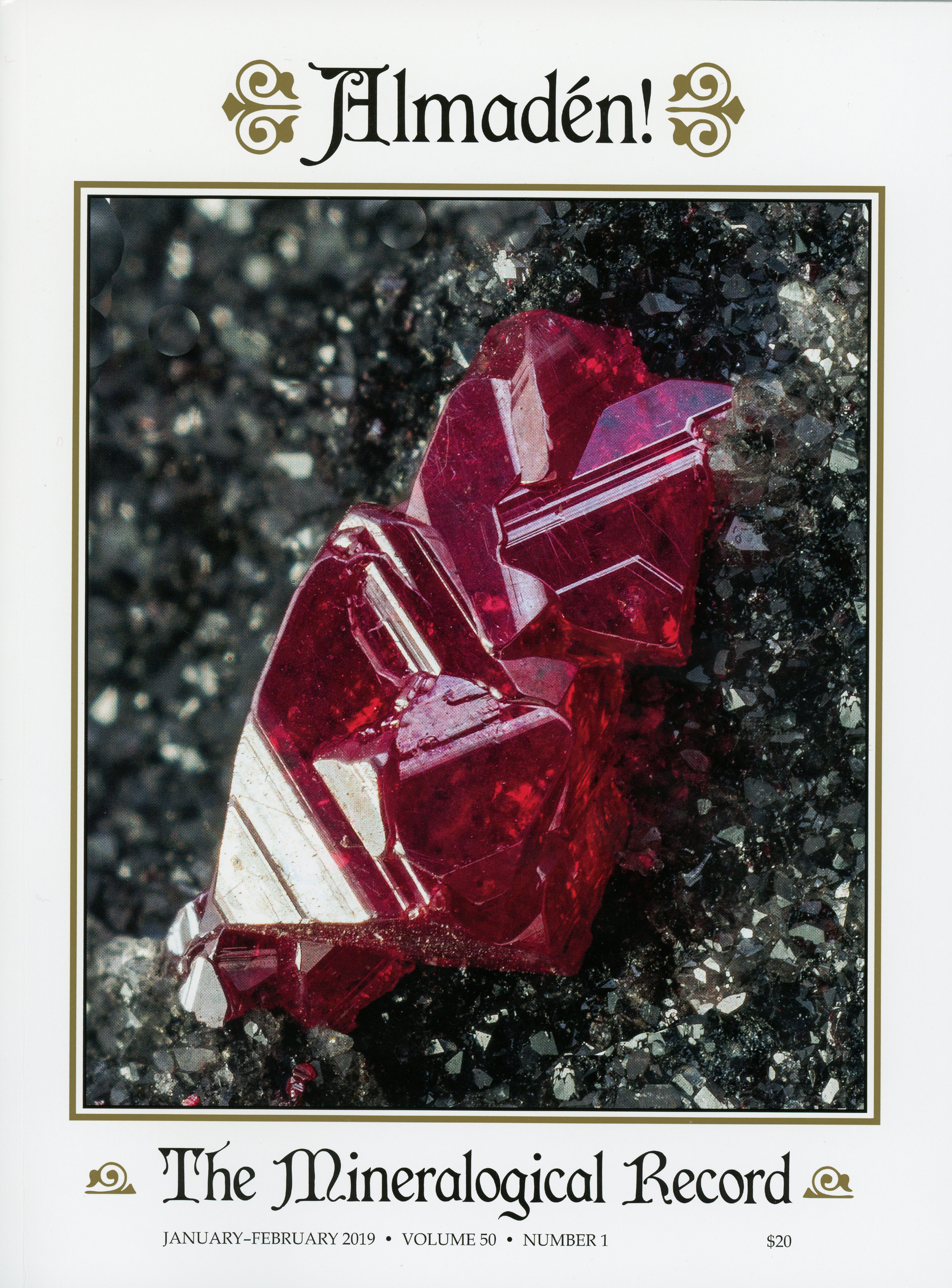 Cover of The Mineralogical Record January-February 2019, with a large article abouth Almaden mines (Spain). Image of a cinnabar specimen